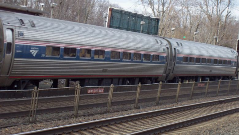 Amtrak Amfleet I Coach at Iselin (Metropark), NJ.